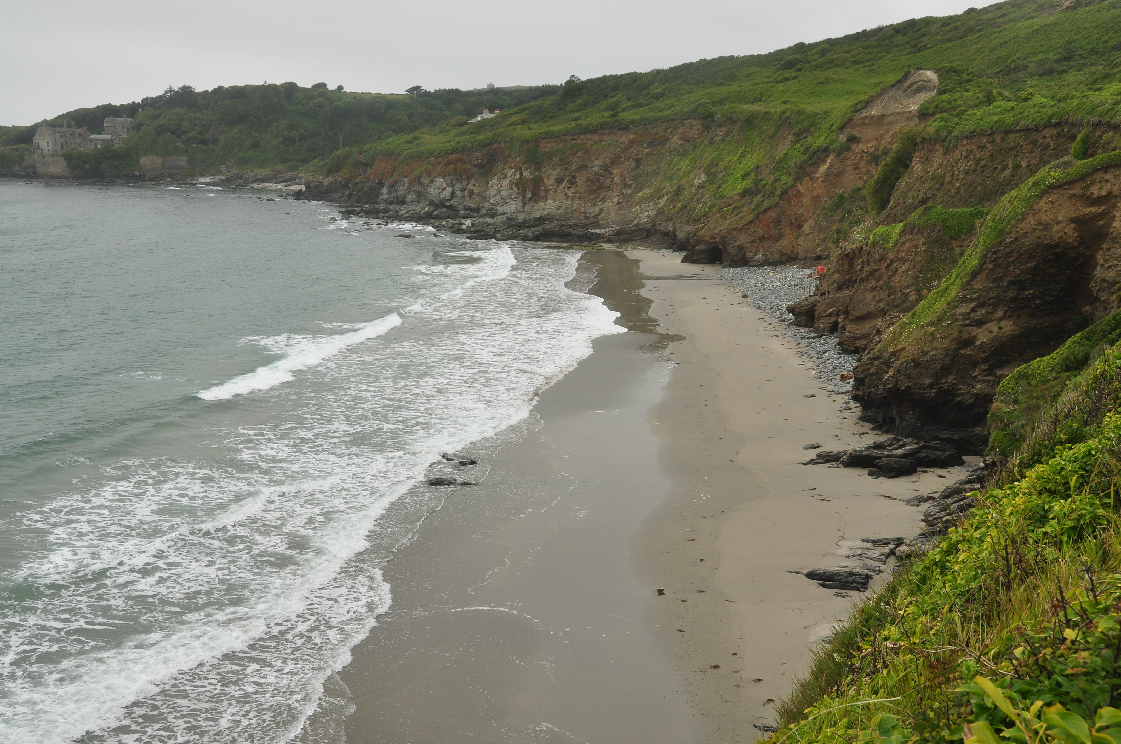 Kenneggy Sand